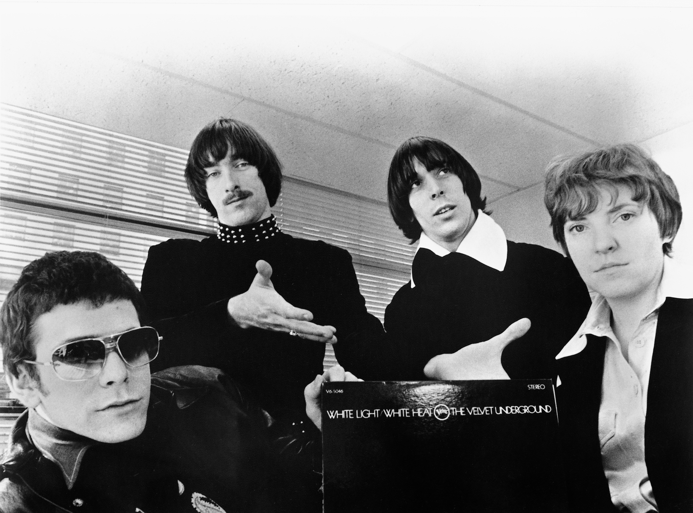 A publicity photo of the American rock band The Velvet Underground circa 1968, promoting their second album White Light/White Heat. The band members are positioned around a copy of the album, with the text of the title visible against a black background. From left to right: Lou Reed, Sterling Morrison, John Cale, and Maureen Tucker.